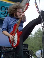 Kenny Howes onstage at the Music Midtown Festival, Atlanta, GA, 2000.